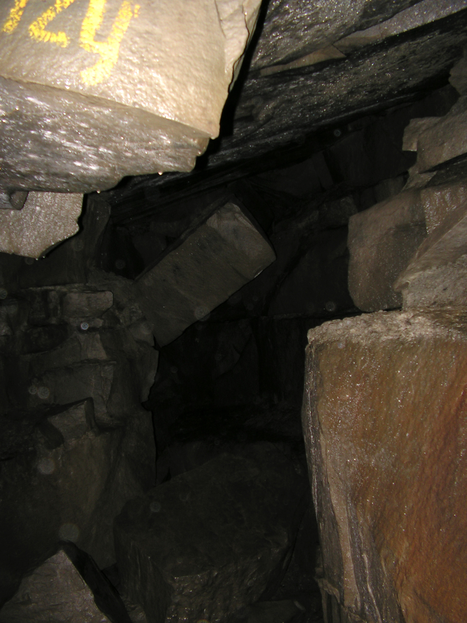 Chamber of Bats in Cave "W Trzech Kopcach".